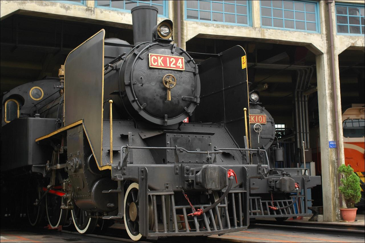 Taiwan Railway Administration Steam locomotive CK124 & CK101 at Changhua Roundhouse